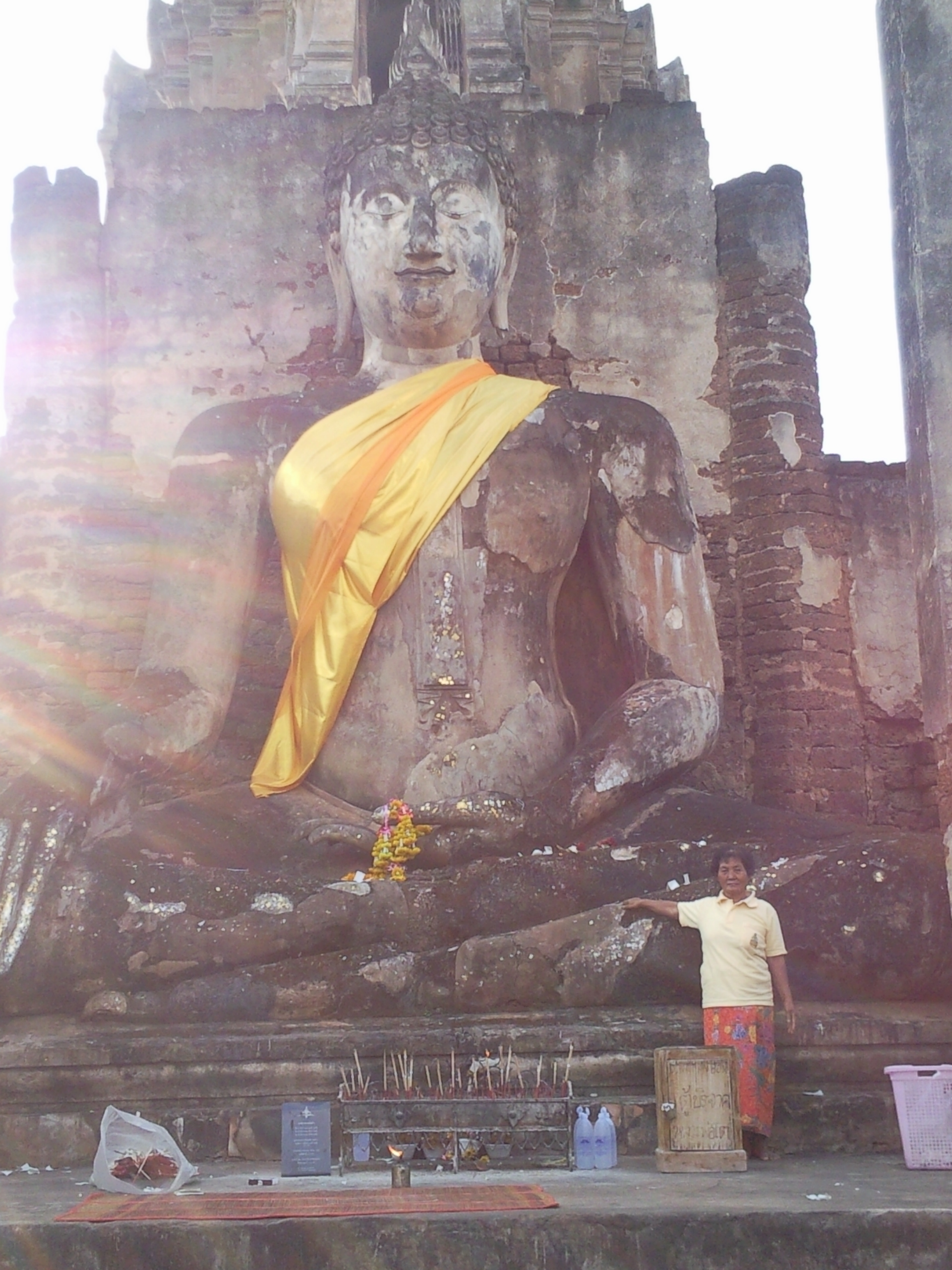 Wat Phra Si Rattana Maha That Chaliang, Si Satchanalai Historical Park, Sukhothai Province